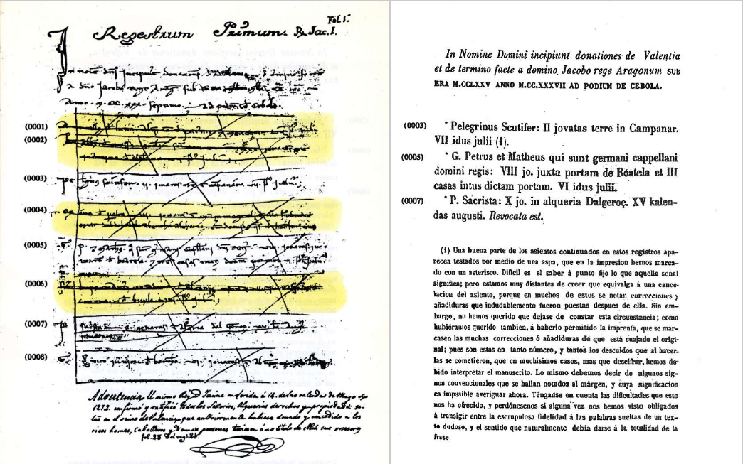 Llibre del repartiment del Regne de Valencia - Register 5 (l) and CODOIN - Volume 11 (r). Number the names and the names that weren't copy by Bofarrull are marked.